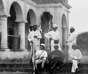 Rimbaud (poet) — in 1880, in the Sheikh-Othman district of Aden. During the British Aden Protectorate era, (in present day southern Yemen).